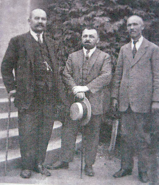 Bulgarian revolutionary/ies